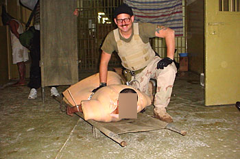 Abu Ghraib 76. 9:16 p.m., Nov. 28, 2003. CPL GRANER is wrapping a foam pad around the detainee, and placed on a litter. SOLDIER(S): CPL GRANER; Unknown. U.S. Army / Criminal Investigation Command (CID). Seized by the U.S. Government.